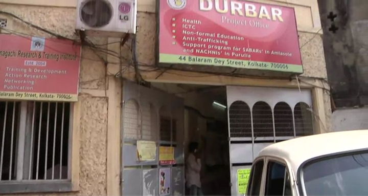 Front of a center of the Durbar Mahila Samanwaya Committee.